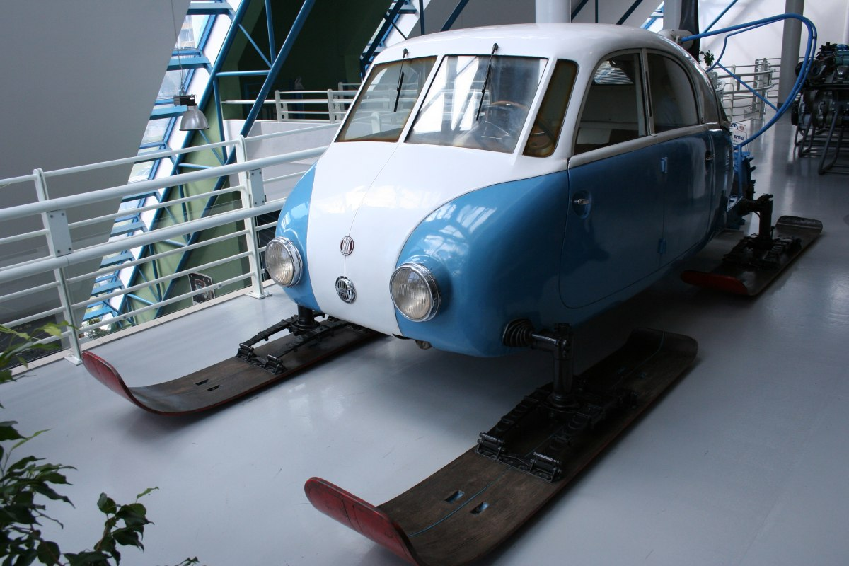 Experimental aerosled (snow car) from 1942 Tatra V855 at Tatra museum